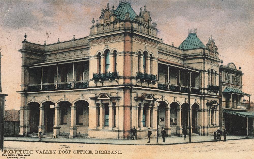 Creator: Unidentified Location: Fortitude Valley, Brisbane Description: Fortitude Valley Post Office, on the corner of Ann and Ballow Streets, Brisbane, ca. 1907. Building erected in 1887. View this image at the State Library of Queensland: Information about State Library of Queensland’s collection: You are free to use this image without permission. Please attribute State Library of Queensland.